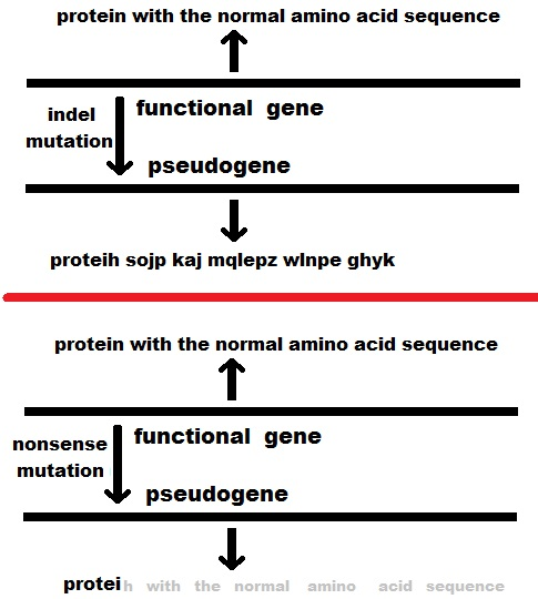 2 ways a pseuogene may be produced